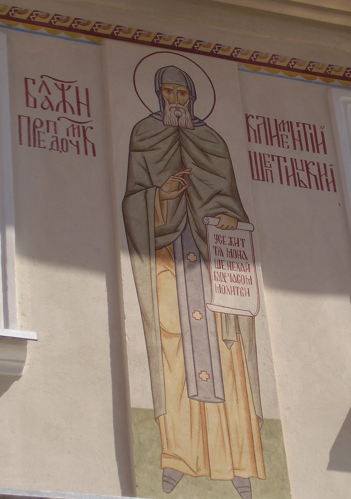 Климент Шептицкий, настеннай роспись в Унивской Лавре